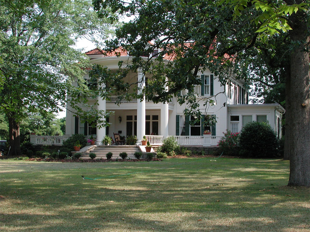 A home along Elberton's Heard Street near the downtown area.